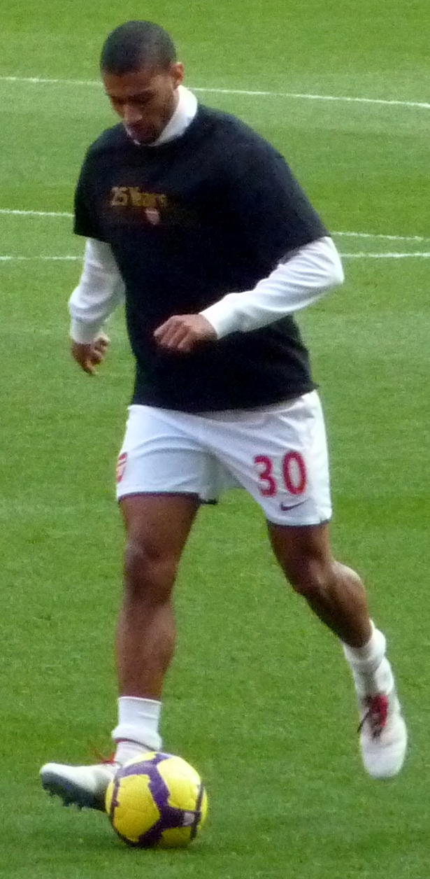 Armand Traoré